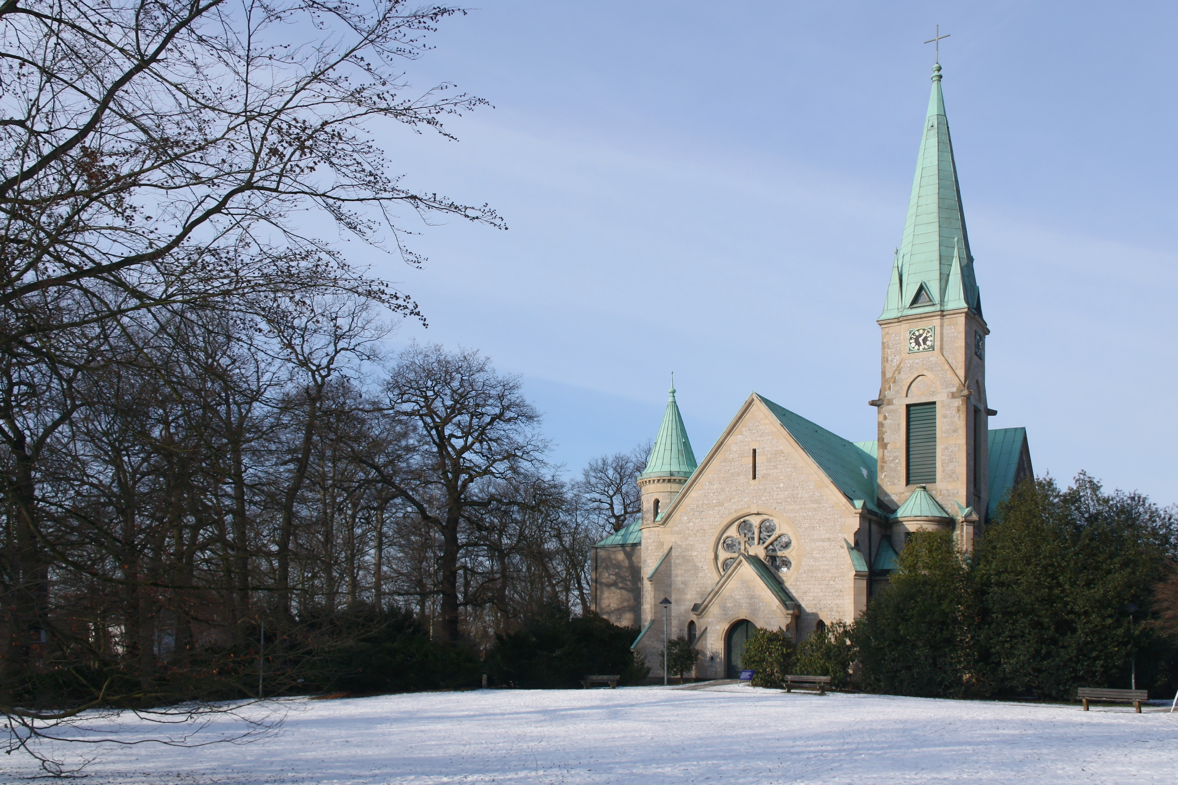 Church of Hamburg-Othmarschen